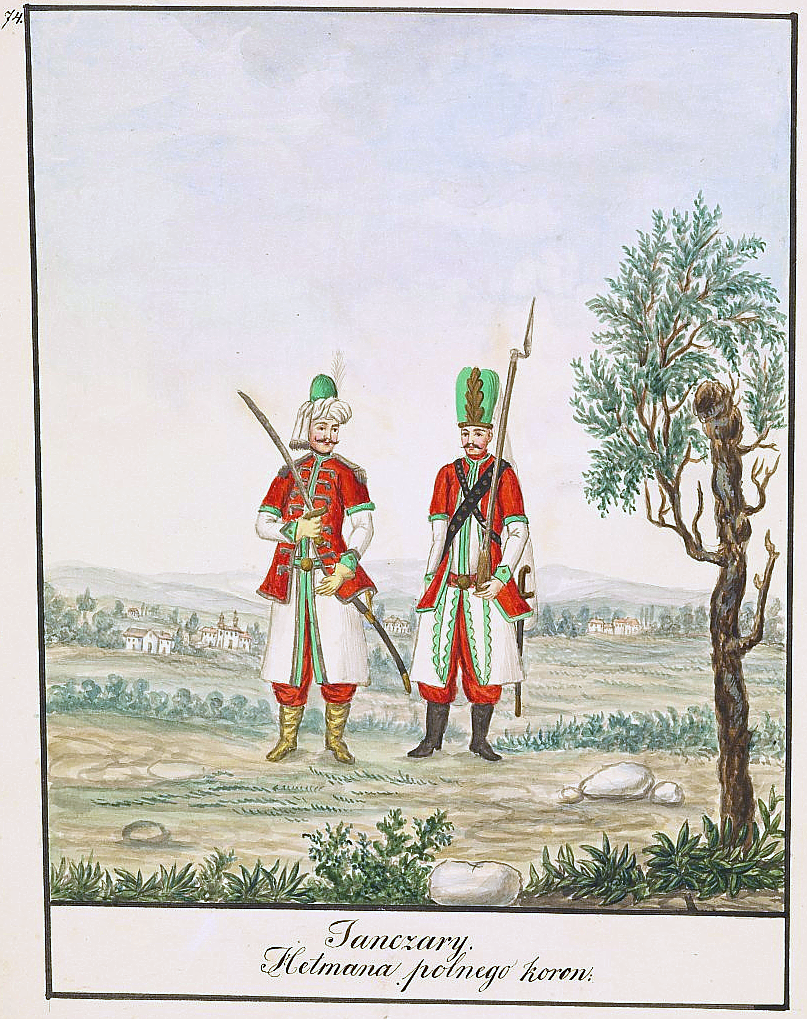 Polish Janissaries of the Field Hetman of the Crown